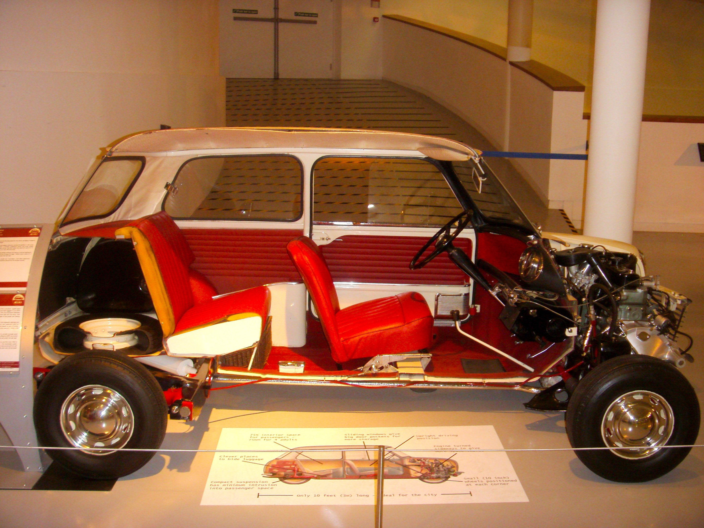 Brilliant packaging in these, amazing how much room they have in them for such a tiny car...